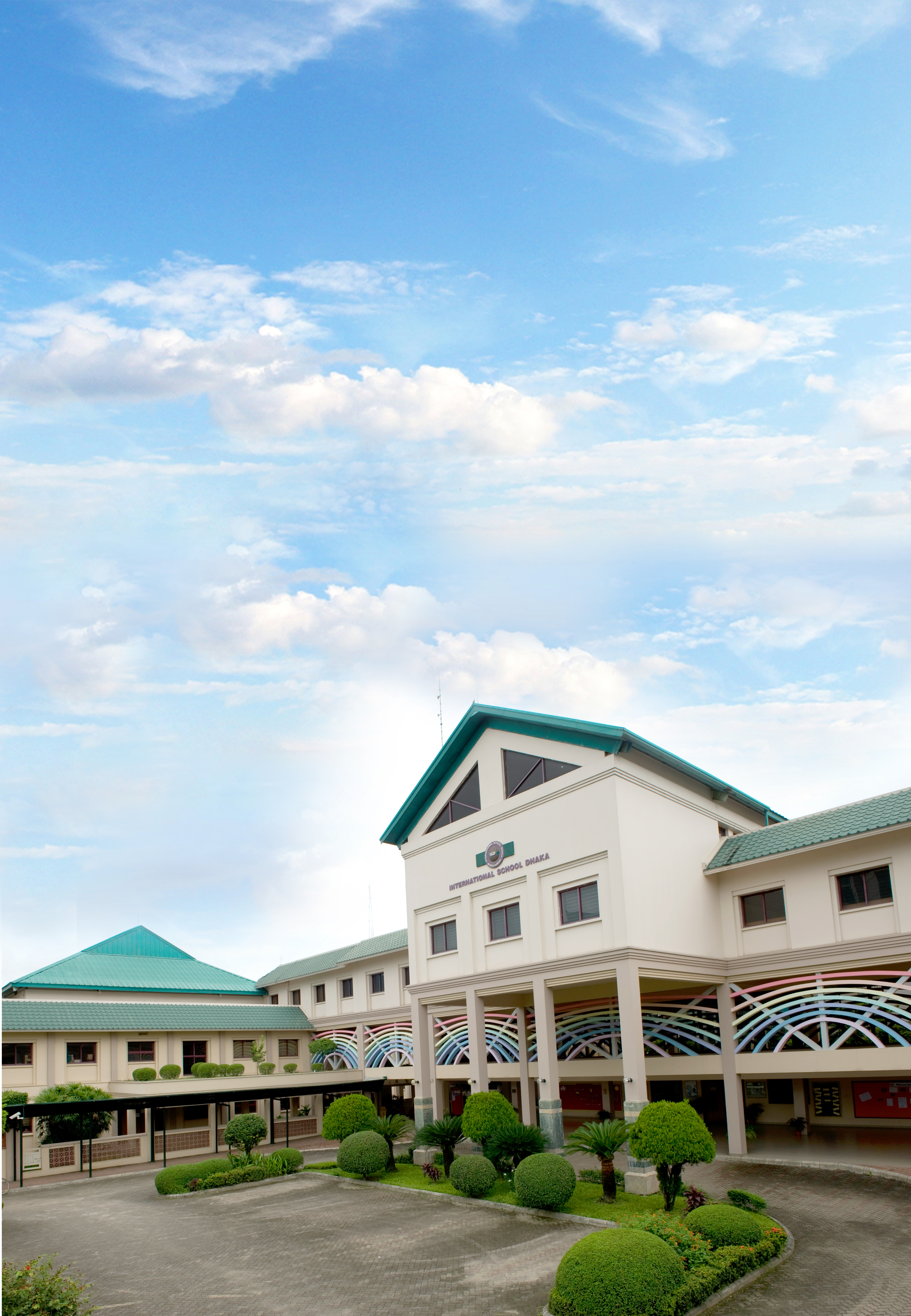 This is the administrative building and front view of the school.